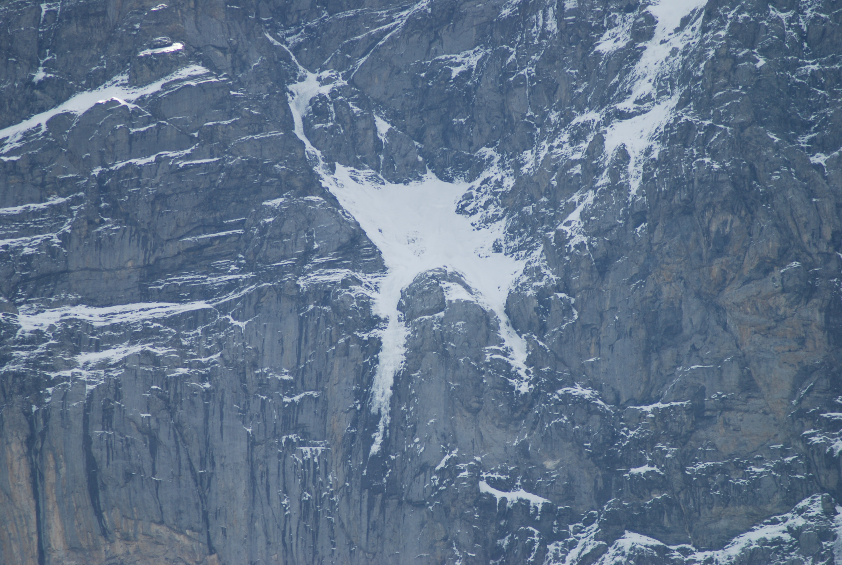 Eiger-northface: The famous "Spider".